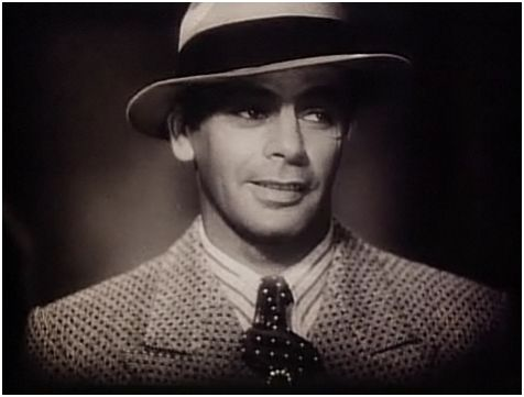 Cropped screenshot from the trailer for the 1932 film Scarface.